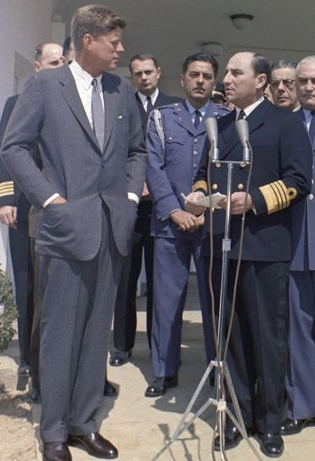 President John F. Kennedy and Admiral of the Argentine Navy Alberto Pablo Vago.